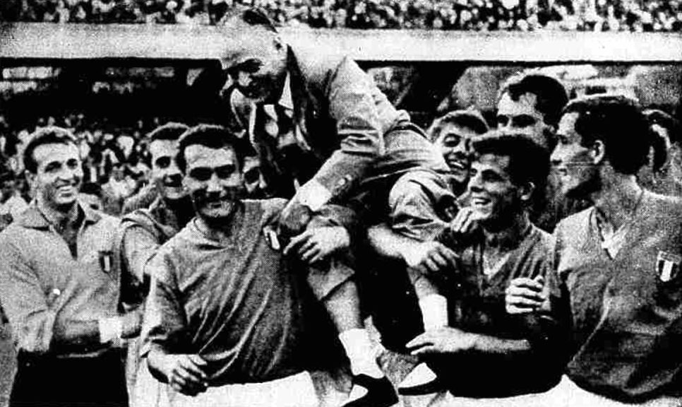 Naples (Italy),"San Paolo" Stadium, September 29, 1963. Italy - Turkey 3-0, IV Mediterranean Games — Naples 1963, football tournament final: Italy's celebration for the gold medal.